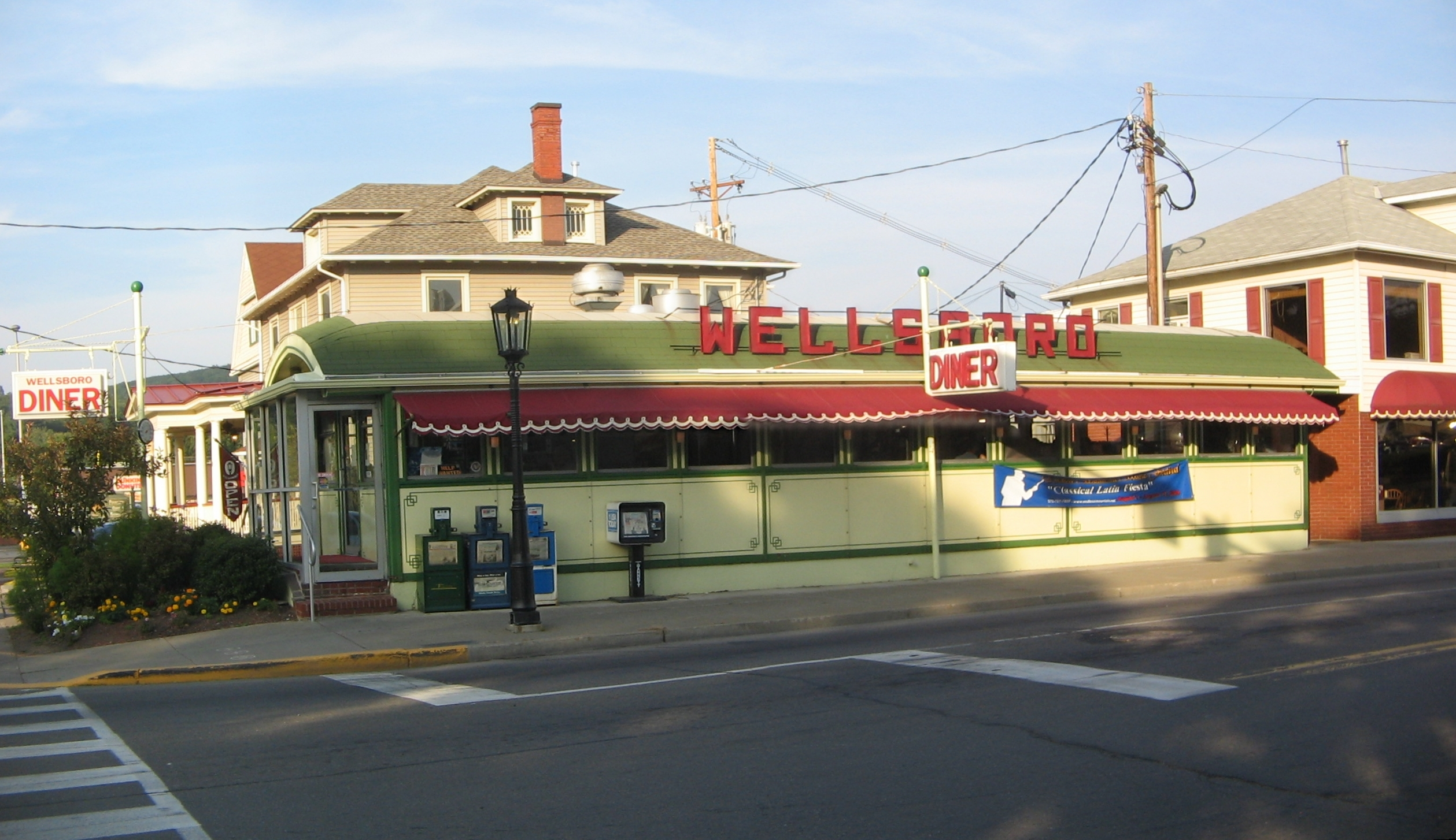 Exterior of the 1938 Diner in Wellsboro, Tioga County, Pennsylvania, United States